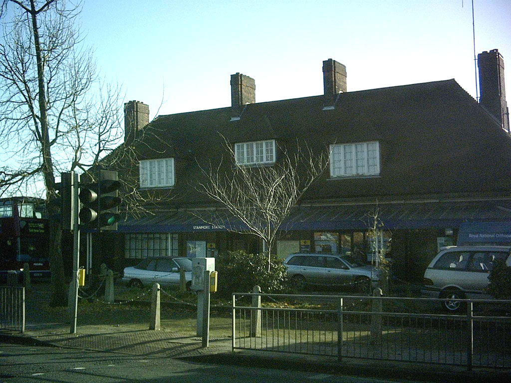 Stanmore tube station